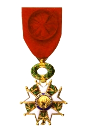 Légion d'honneur, Officer Cross, of the 3rd French Republic, 1880.